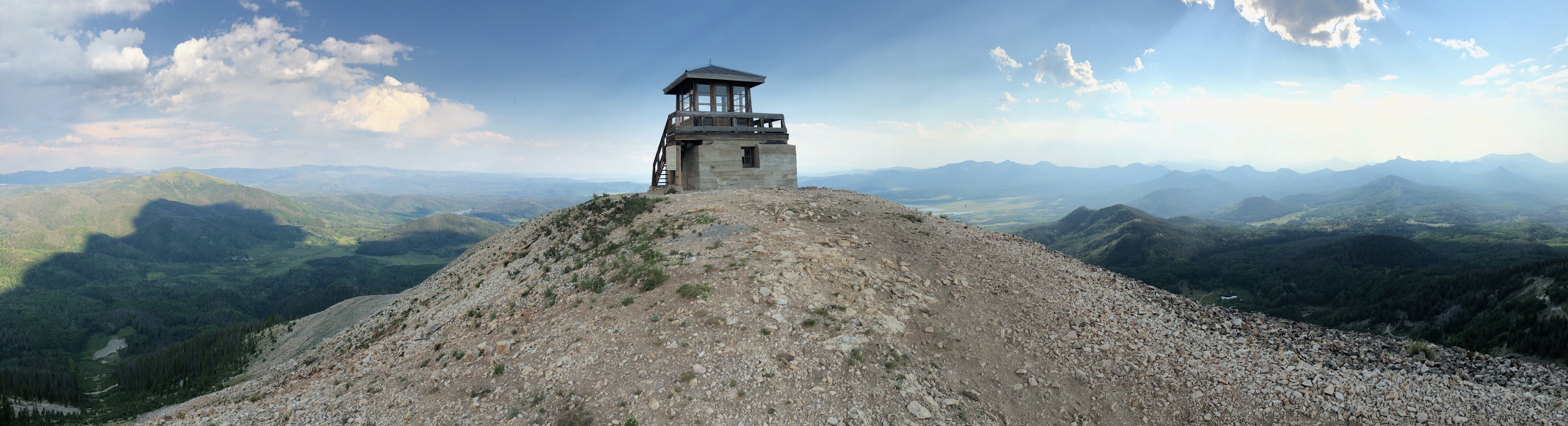 Fire lookout on Hahns Peak, in Hahns Peak, Colorado.